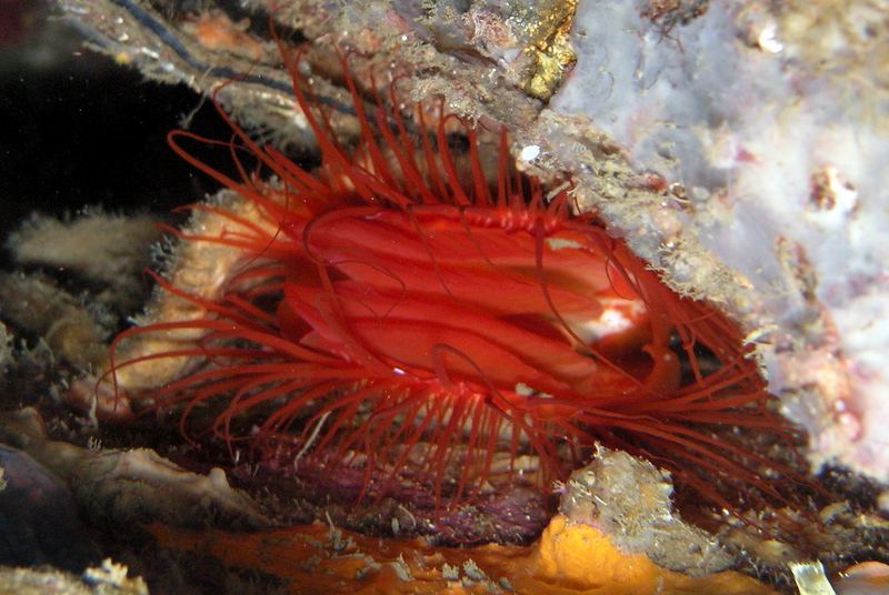 Image of a Limidae species. About 100cm across, it had electric sparks flashing on its mantle. Taken at Lembeh Straits, North Sulawesi, Indonesia.